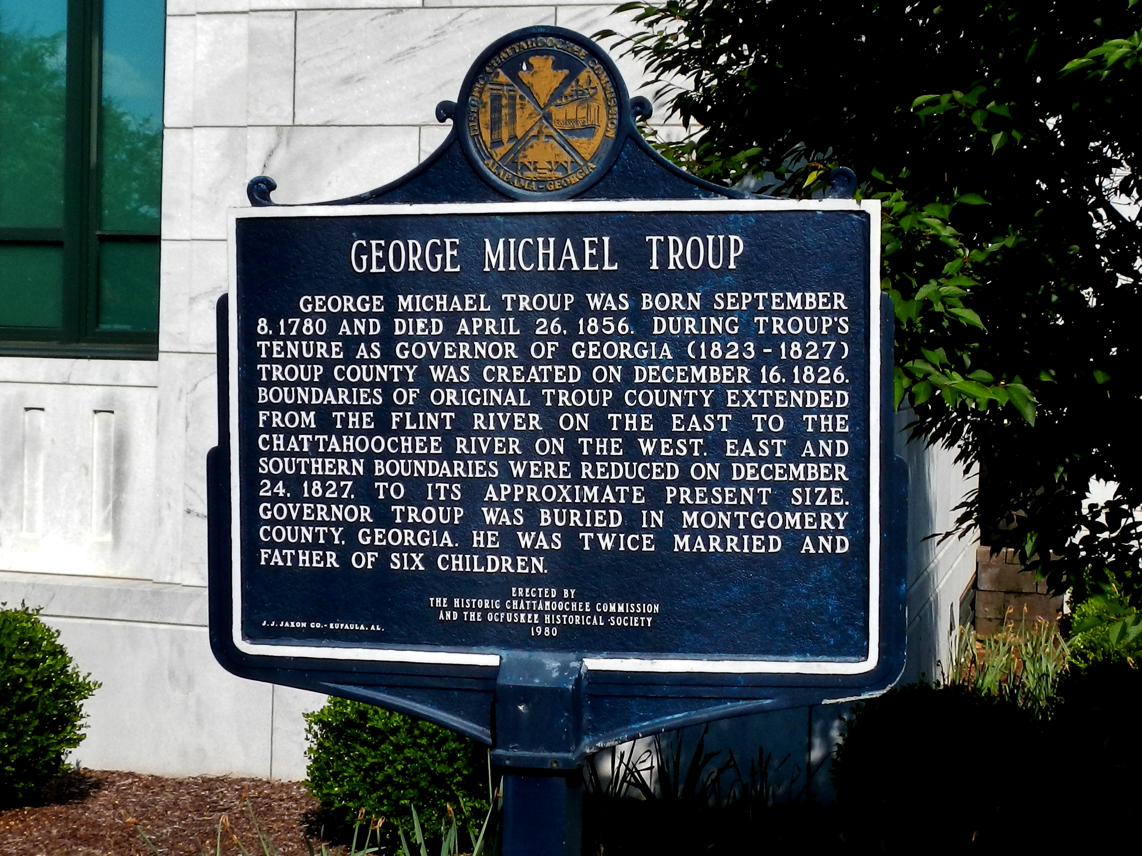 This is a photograph that I took of a historical marker outside the Old Troup County Courthouse recognizing the contributions of George McIntosh Troup (erroneously called "George Michael Troup" here) to the State of Georgia.